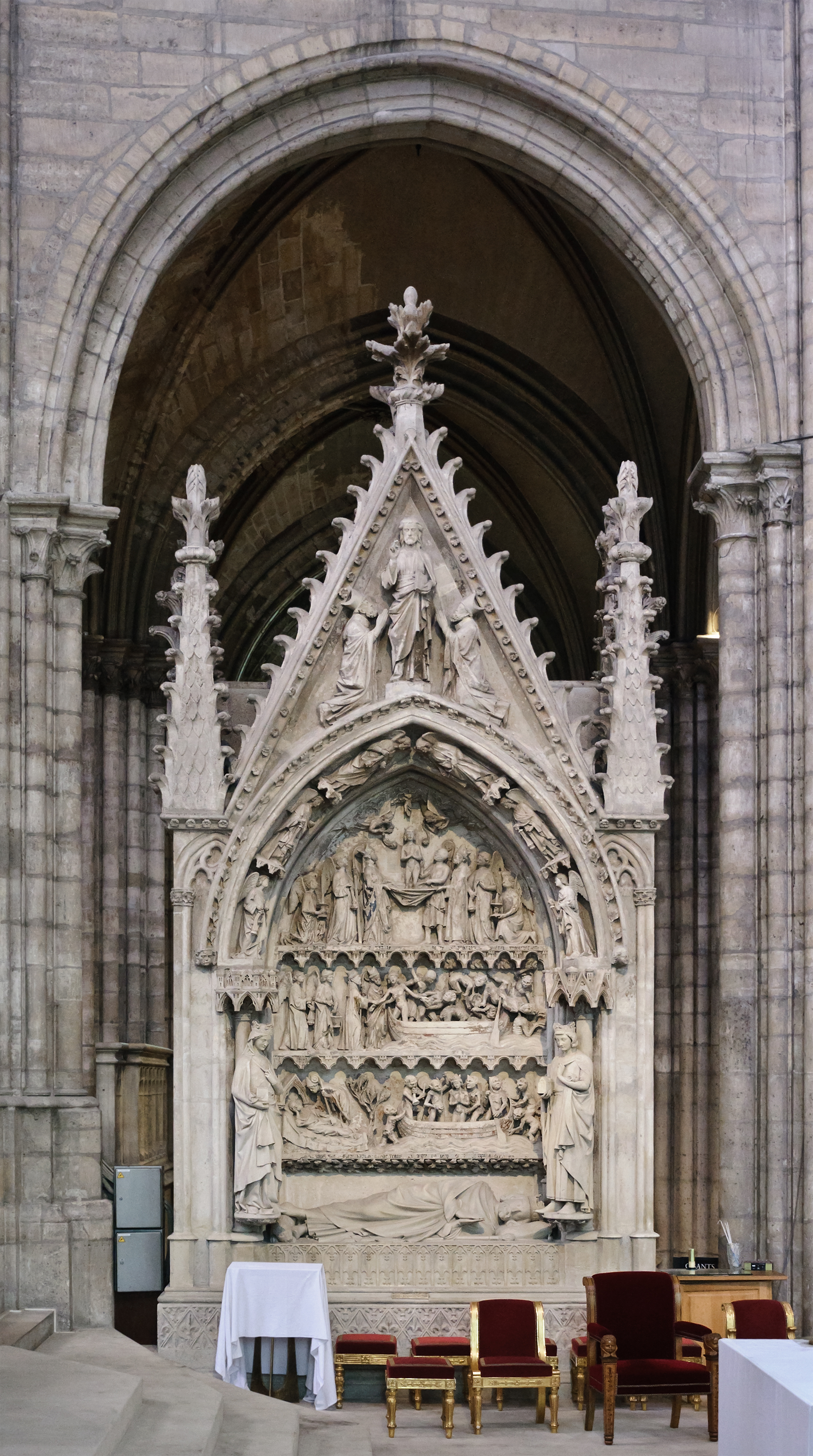 The tomb of Dagobert I (13th-century) in the basilica of St Denis, France.